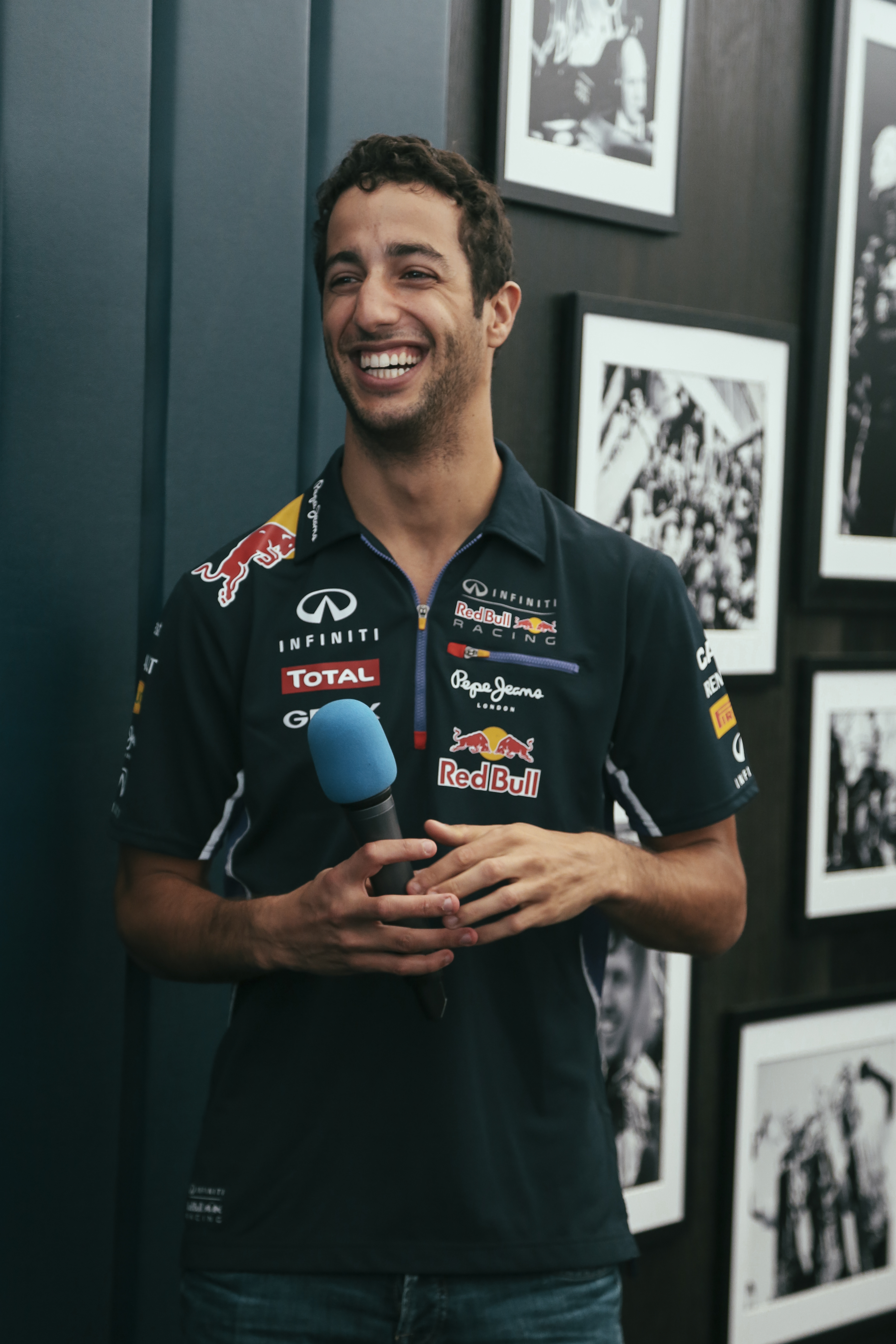 Daniel Ricciardo at 2014 Italian Grand Prix (Monza).